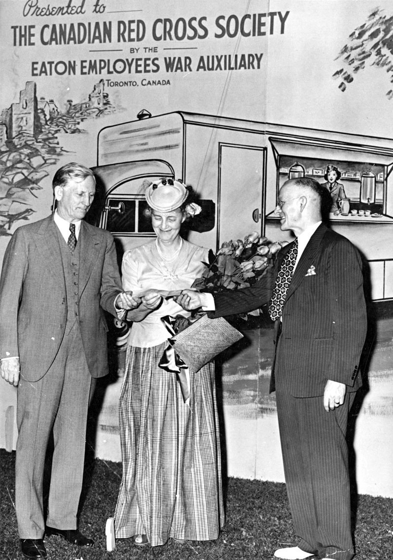 Lady Eaton presents a cheque for $3,100 to Dr. Fred W. Routley (left) of the Canadian Red Cross as a donation from the employees of the Toronto Eaton stores. R. Rooney, representing the staff, looks on. Eaton Hall Farm, King, Ontario